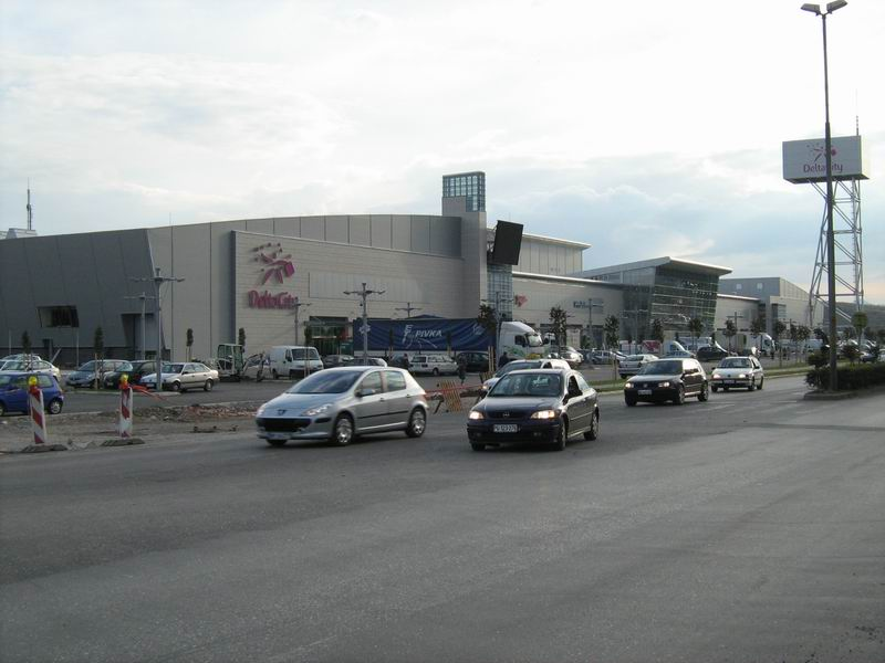 Delta City Shopping mall Podgorica